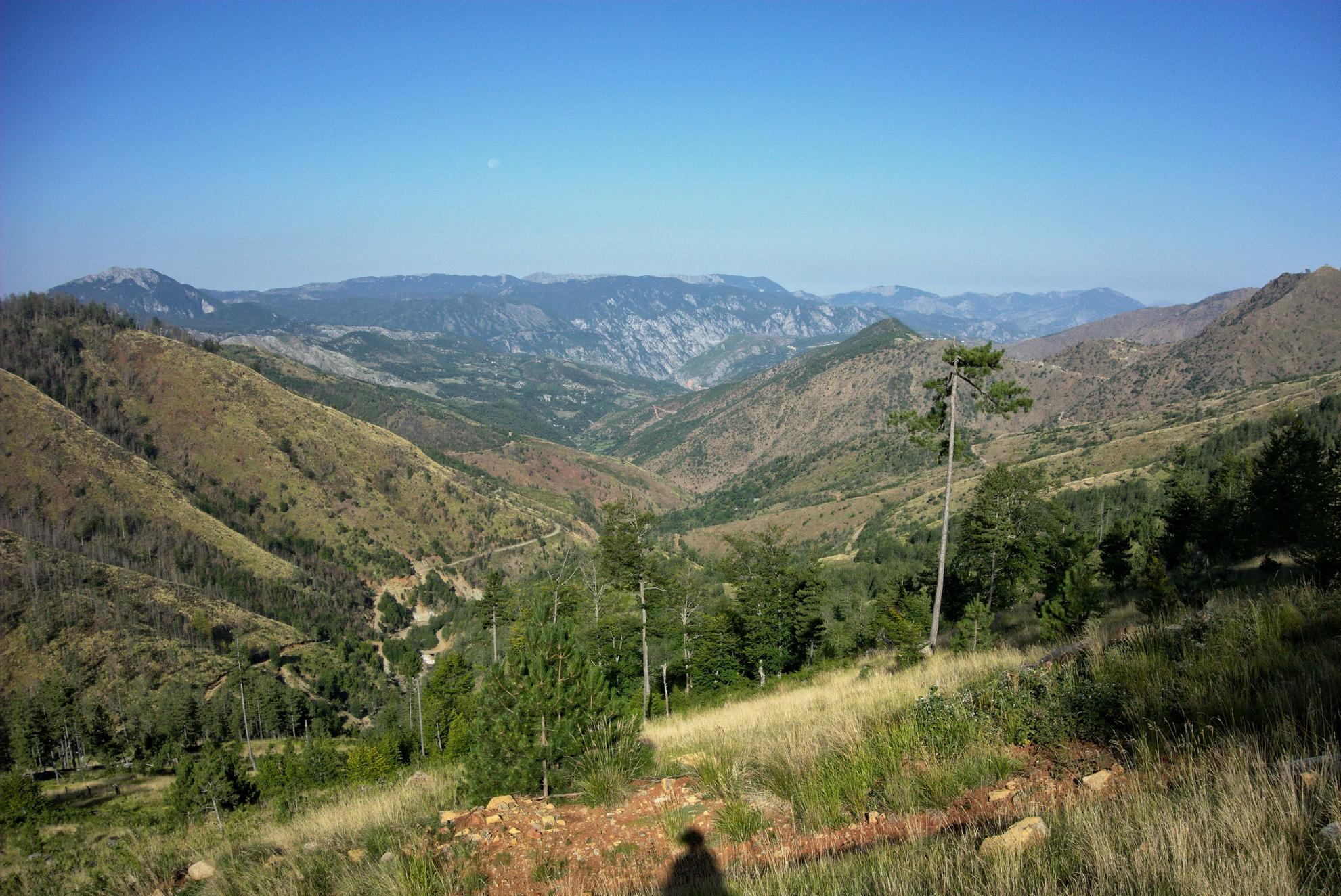 Martanesh mountains